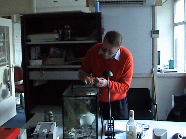 A vet, giving a goldfish an injection because of an eye infection. The name of the goldfish is Hannes. GNU-FDL. Picture can be published with permission of the vet.